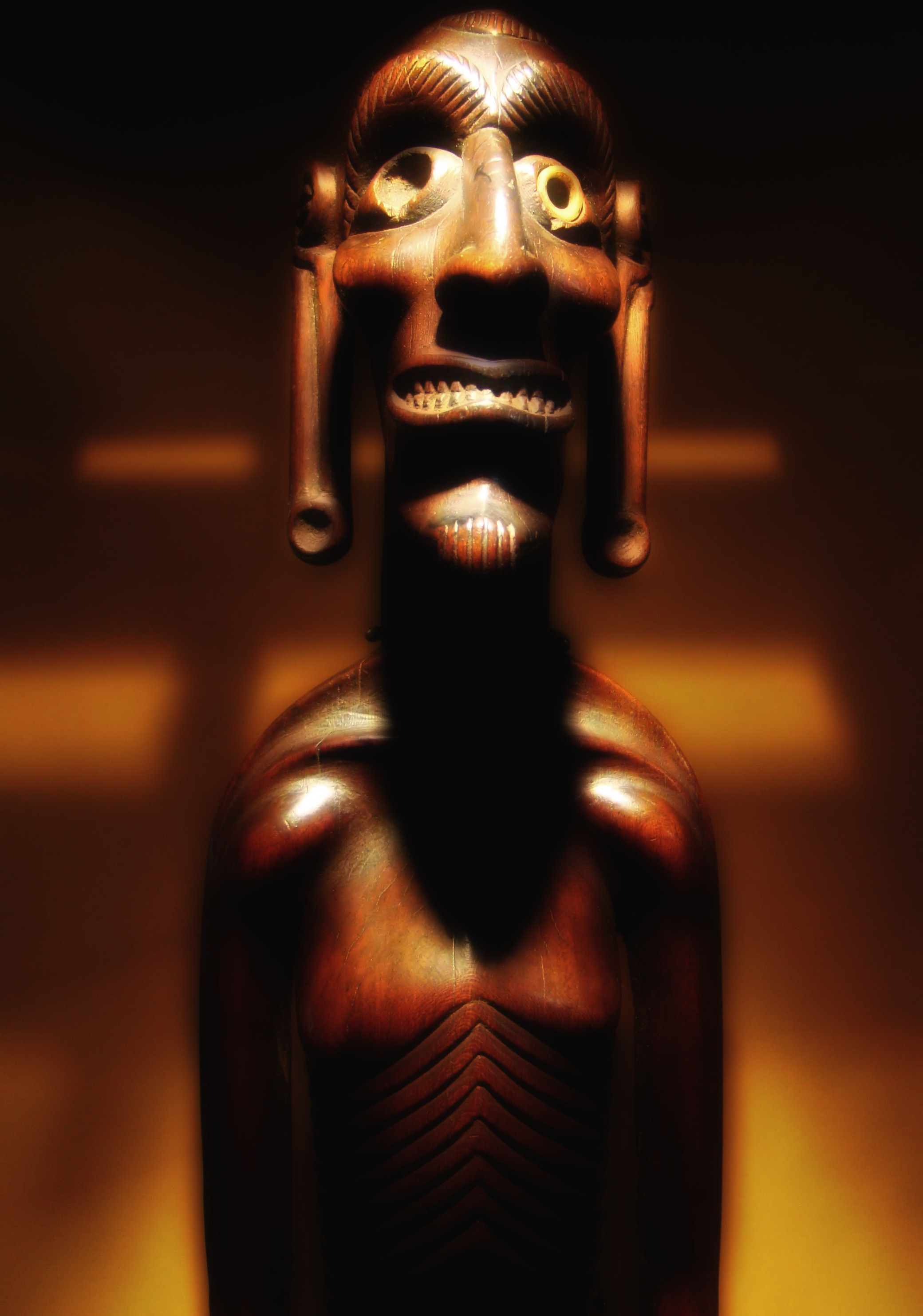 A sculpture of the "Moai kavakava" type. From a display on the settlement of the Polynesian islands. Text from the display: "Legendary hero Tu-ko-ihu carved the first moai kavakava after two skeleton-like figures appeared to him in a dream. The figures were held up to the sky during rituals dedicated to the gods."